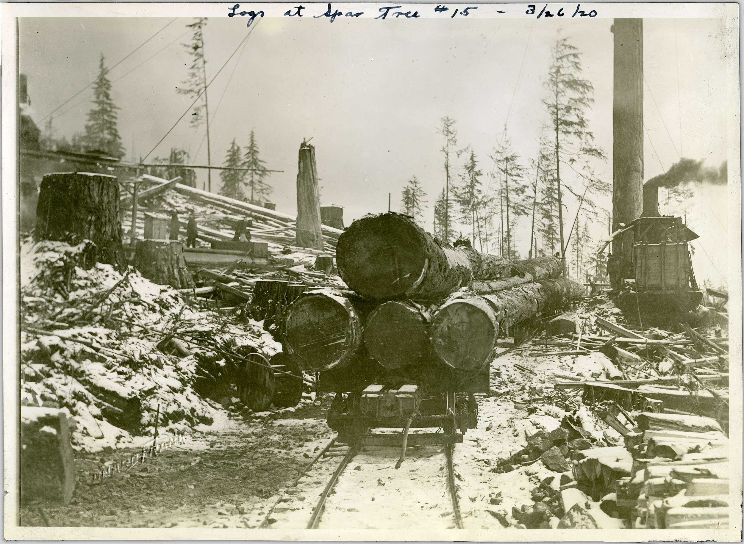 No known copyright restrictions. Please credit UBC Library as the image source. For more information, see Creator: Unknown Date Created: 1920-03-26 Source: Original Format: University of British Columbia. Library. Rare Books and Special Collections. Capilano Timber Company fonds. Permanent URL